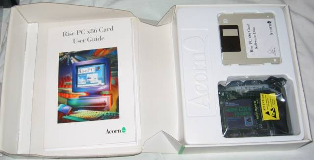 Acorn ACA56 Risc PC x86 Card box open.The Acorn ACA56 box opened to show the Risc PC x86 User Guide on the left, on the right top is the Acorn Risc PC x86 Software disc and below it the Acorn ACA56 Risc PC x86 card in its anti-static bag.